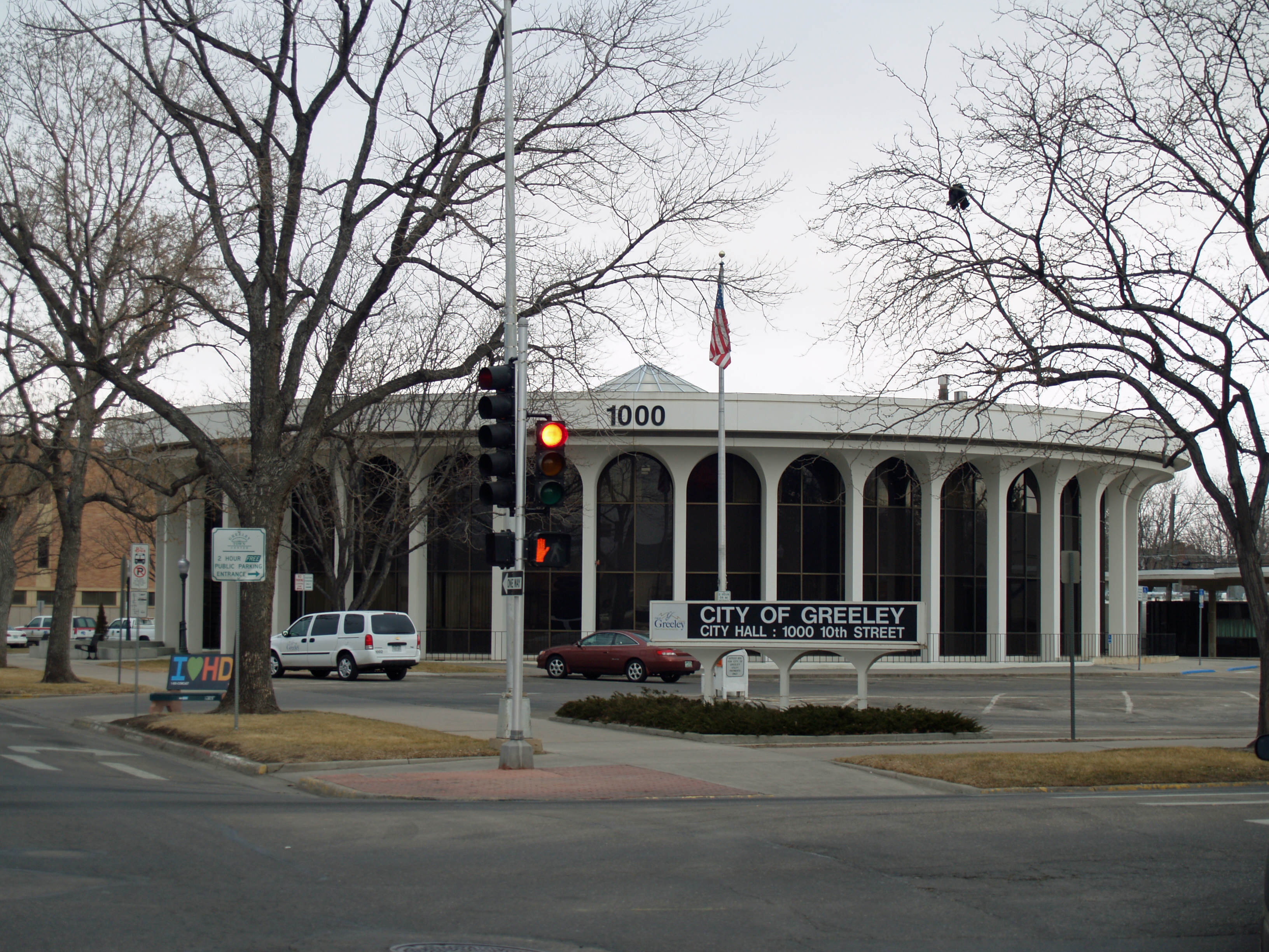 City Hall in Greeley, Colorado.